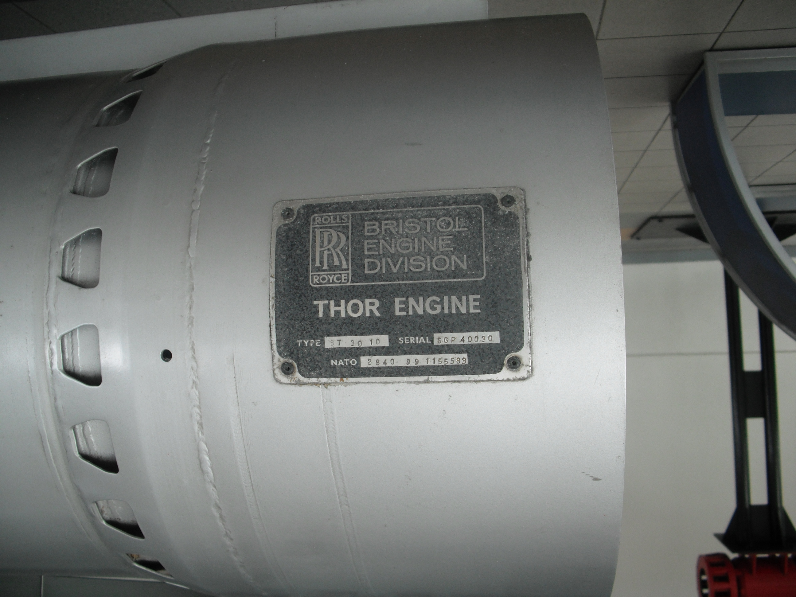 Close-up of the manufacturer's tag on a Rolls Royce (Bristol Engine Division) THOR Ramjet Engine, photo taken at RSAF Museum, Paya Lebar Air Base, Singapore.